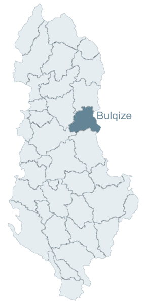 Bulqize